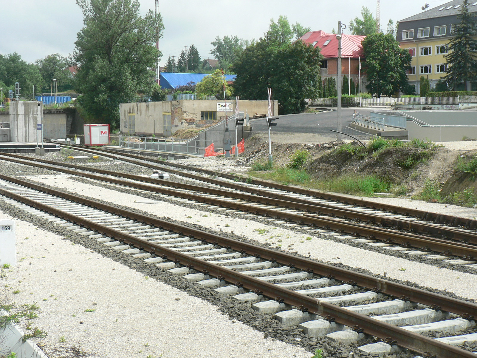 Former level crossing of the Route 10 and Budapest–Esztergom railway line in Pilisvörösvár